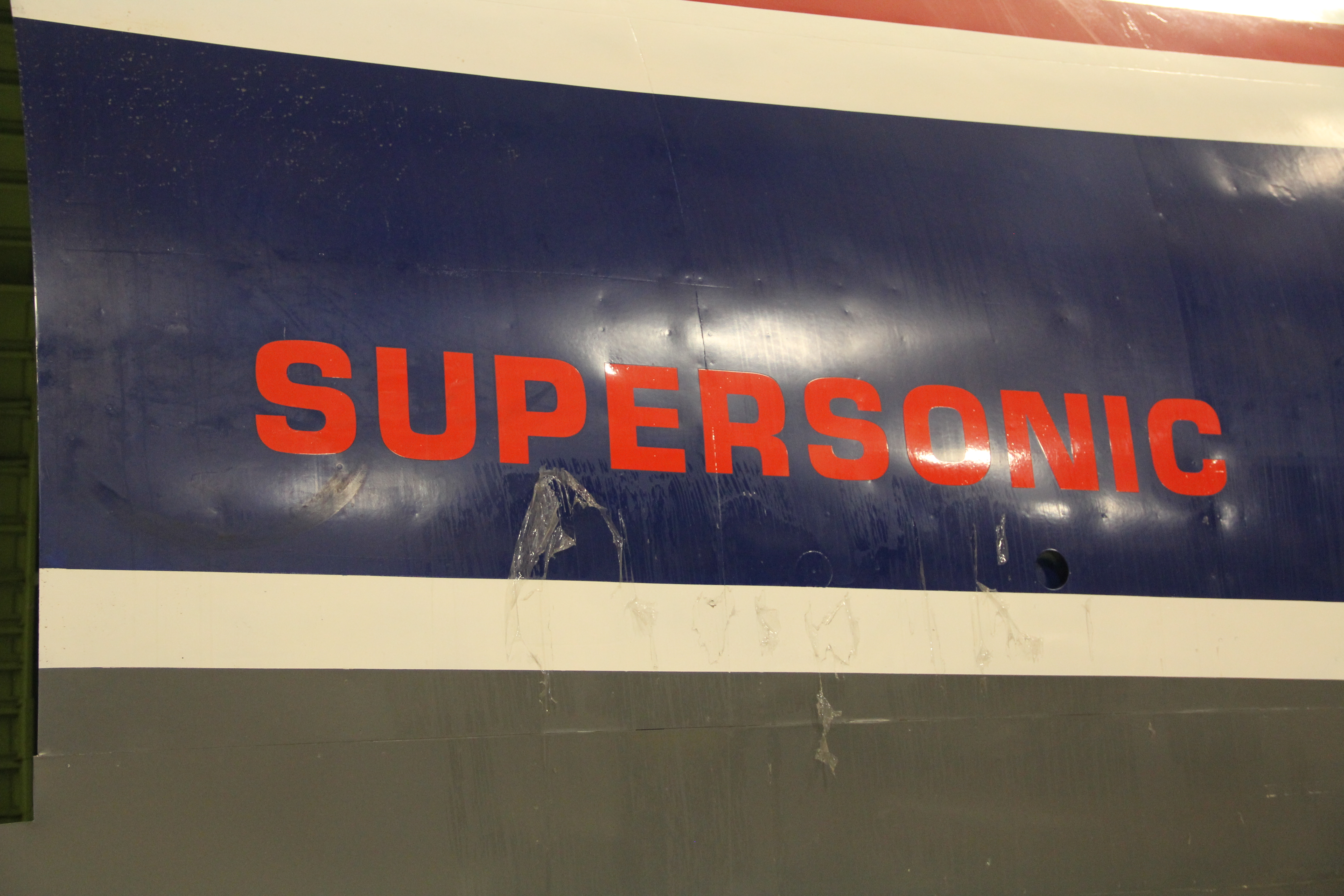 At the Museum of Flight restoration facility at Paine Field